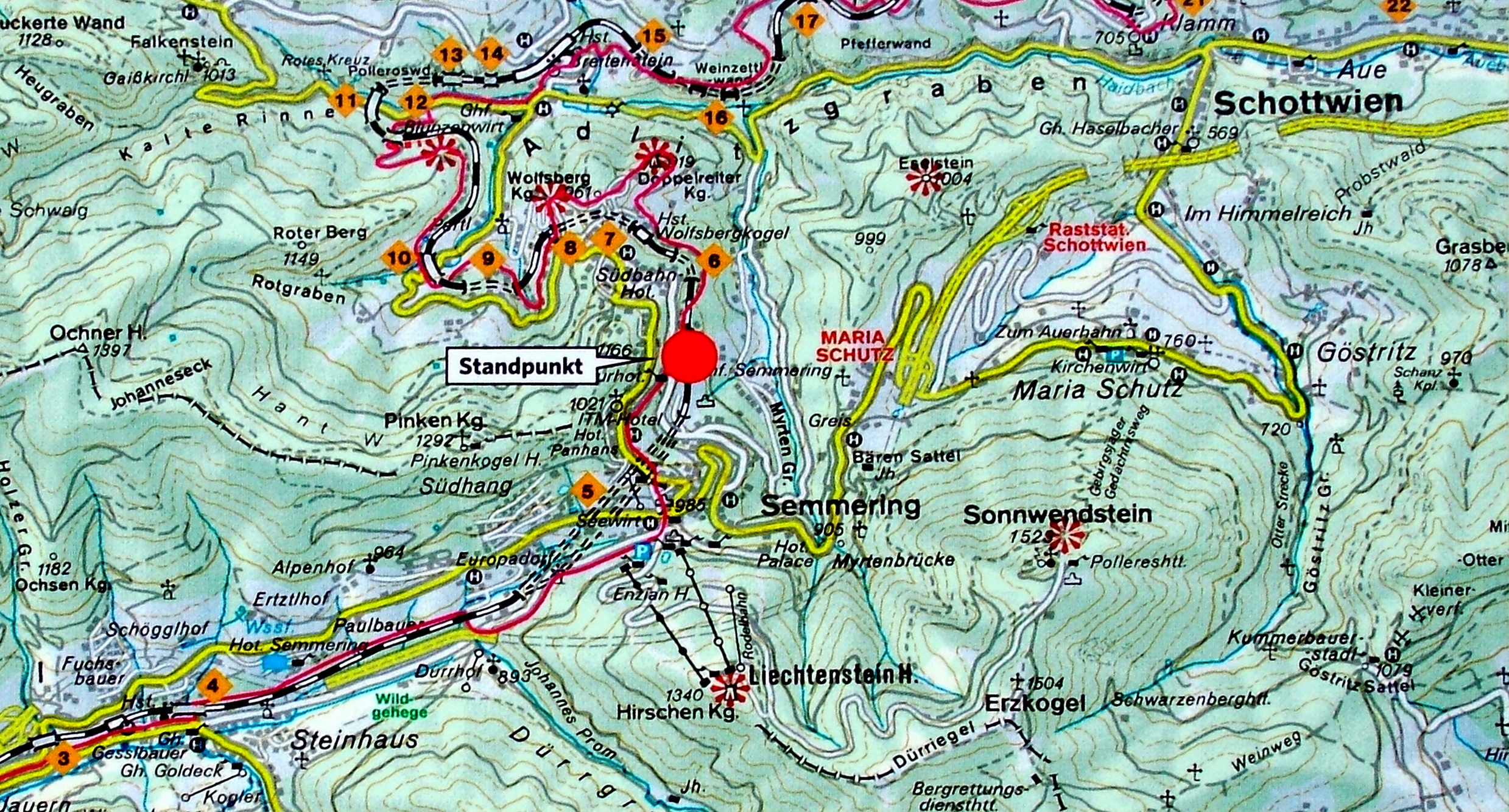 The Semmering Railway